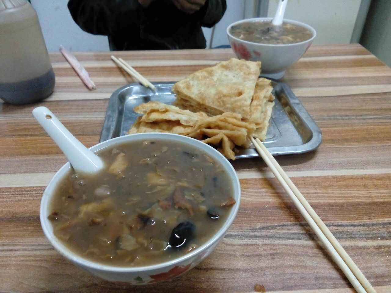 Hu la tang is a kind of common snacks in northern China.